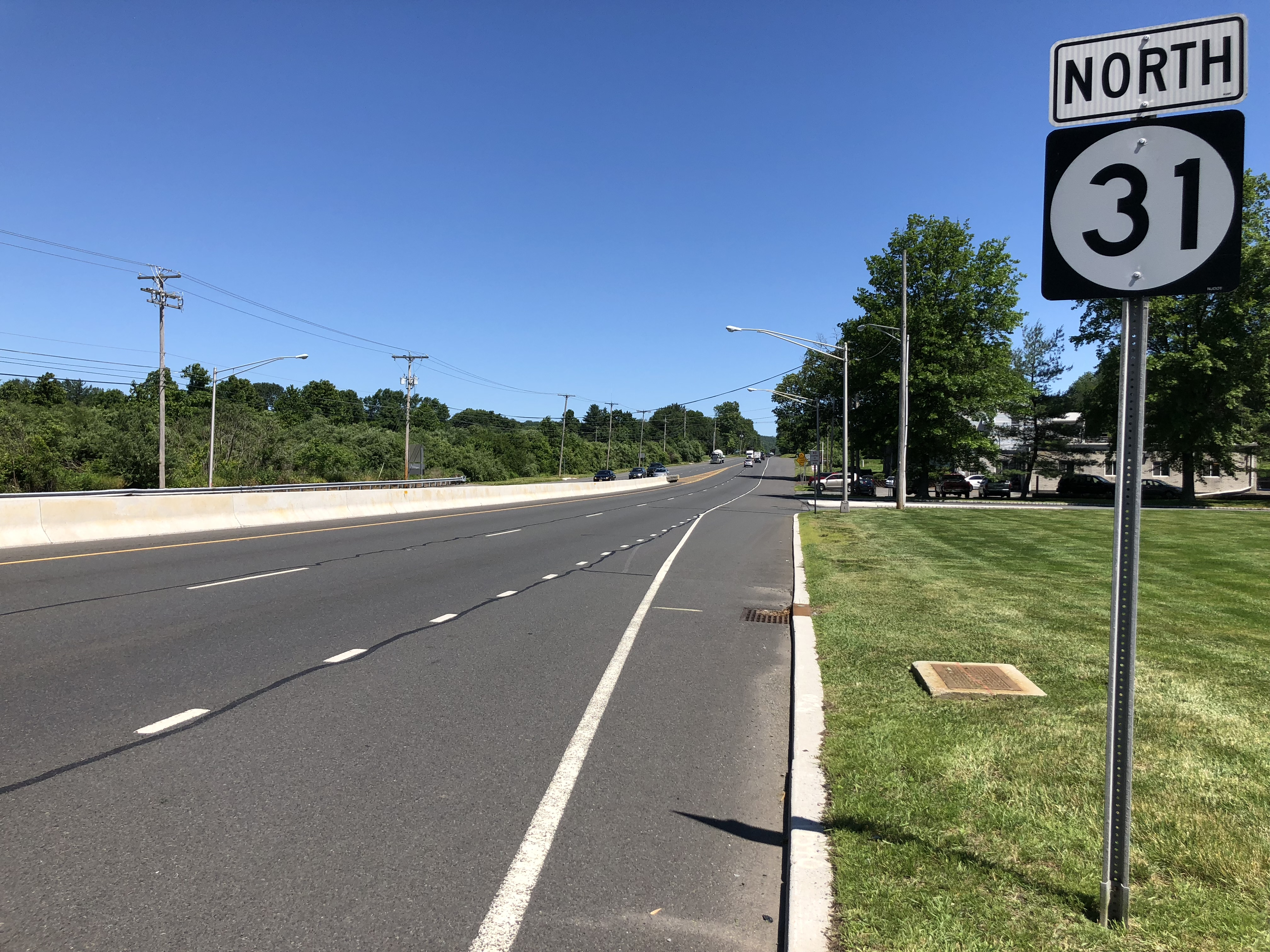 View north along New Jersey State Route 31 just north of Hunterdon County Route 513 (Main Street) in Clinton Township, Hunterdon County, New Jersey